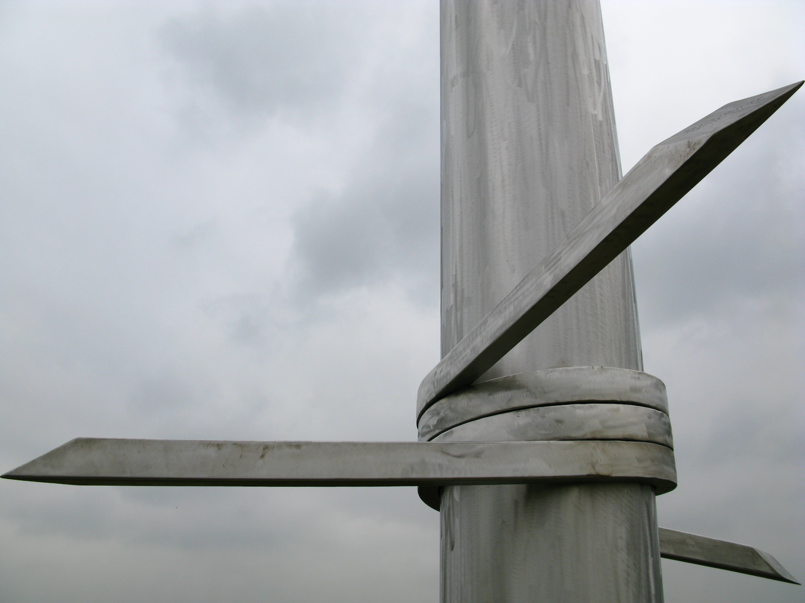 Detail of the European Memorial in the previous Episcopal quarry of Fertőrákos near Lake Neusiedl, County Győr-Moson-Sopron / Hungary / EU.